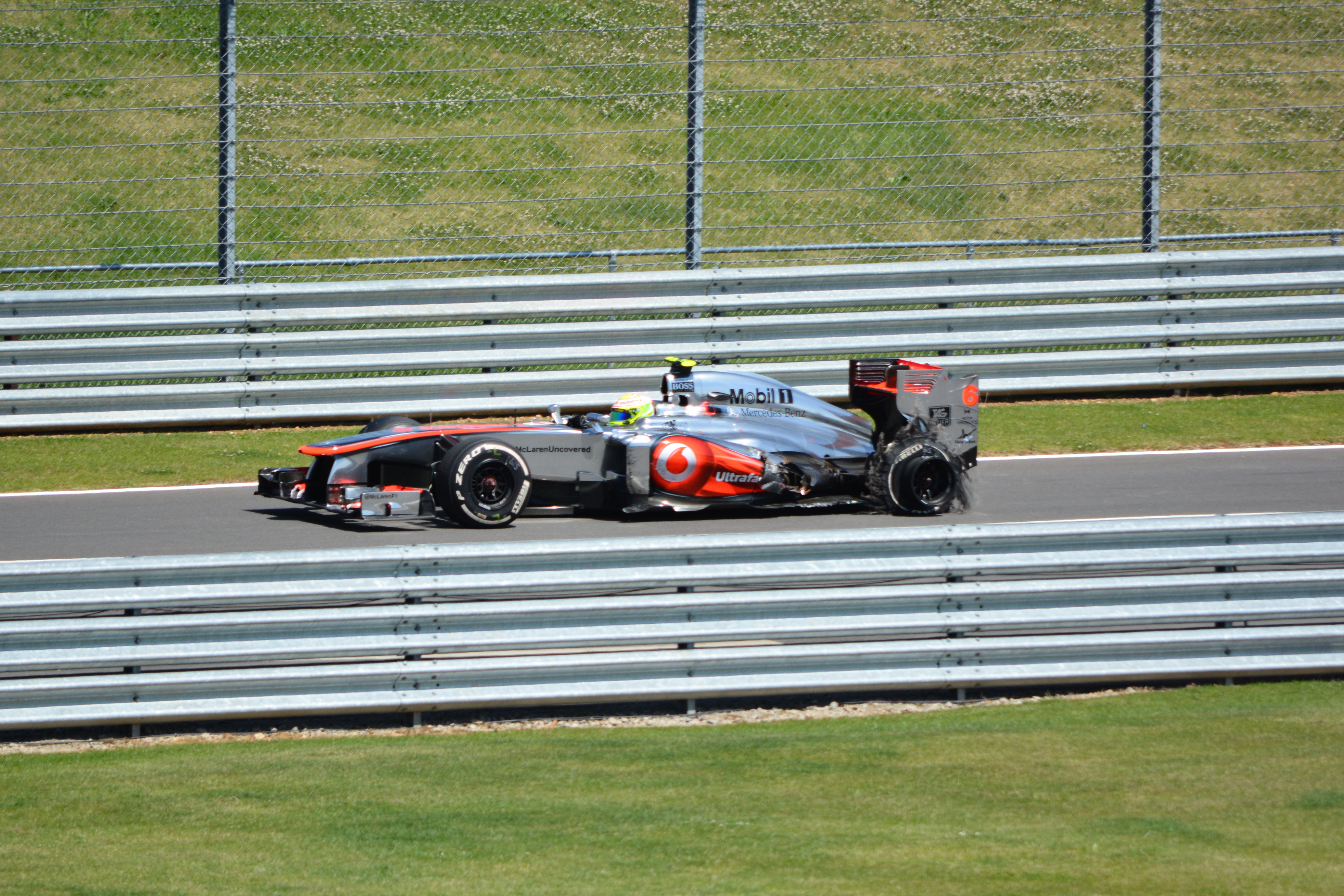 Sergio Pérez (McLaren) at the 2013 British Grand Prix.